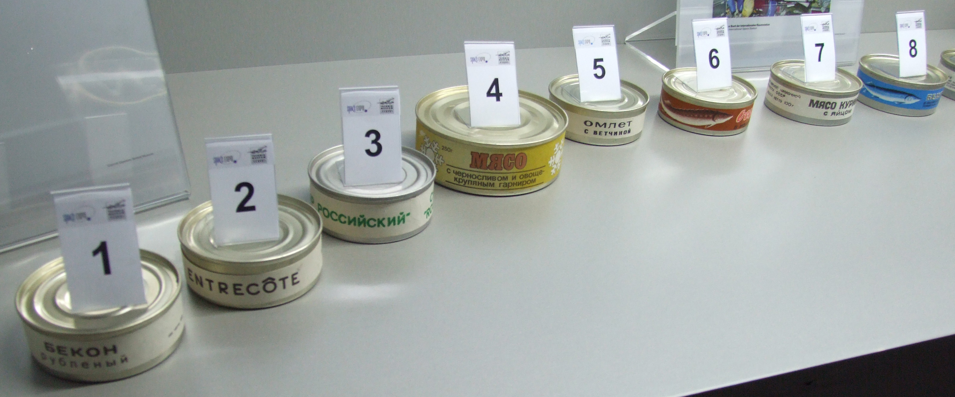 russian space food: 1. bacon, 2. beef, 3. cheese, 4. meat with plum and vegetable side dish, 5. scrambled egg with ham "omlette", 6. sturgeon in tomato-aspic-sauce, 7. chicken with egg, 8. beluga in tomato-aspic-sauce ; Technik Museum Speyer